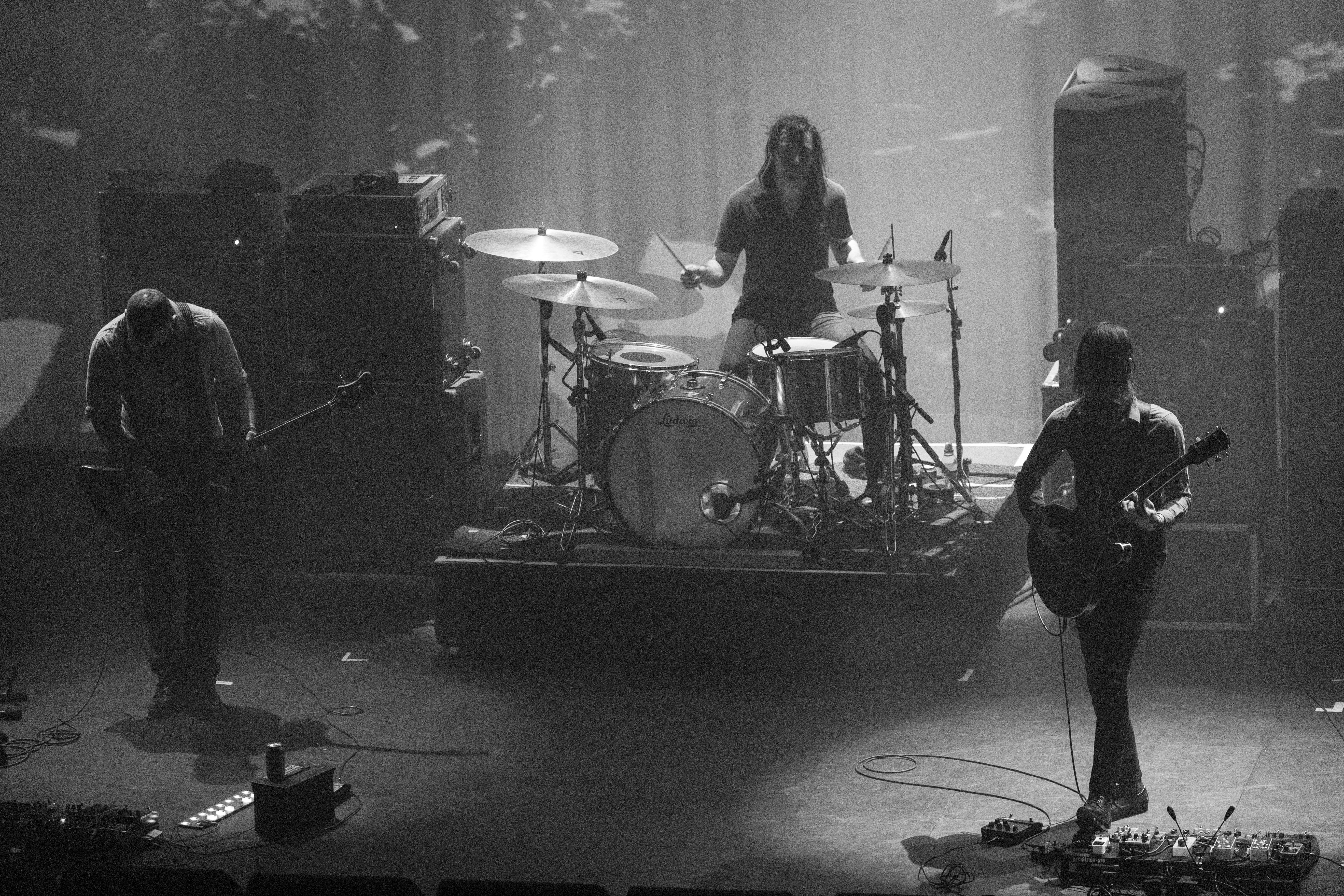 Russian Circles performing at Roadburn Festival, april 2015